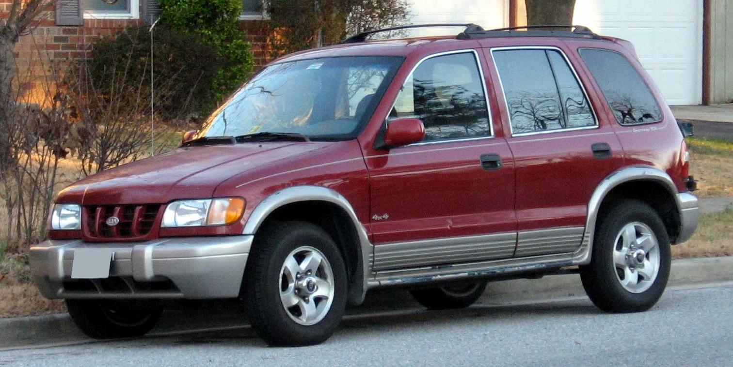 Kia Sportage photographed in USA.